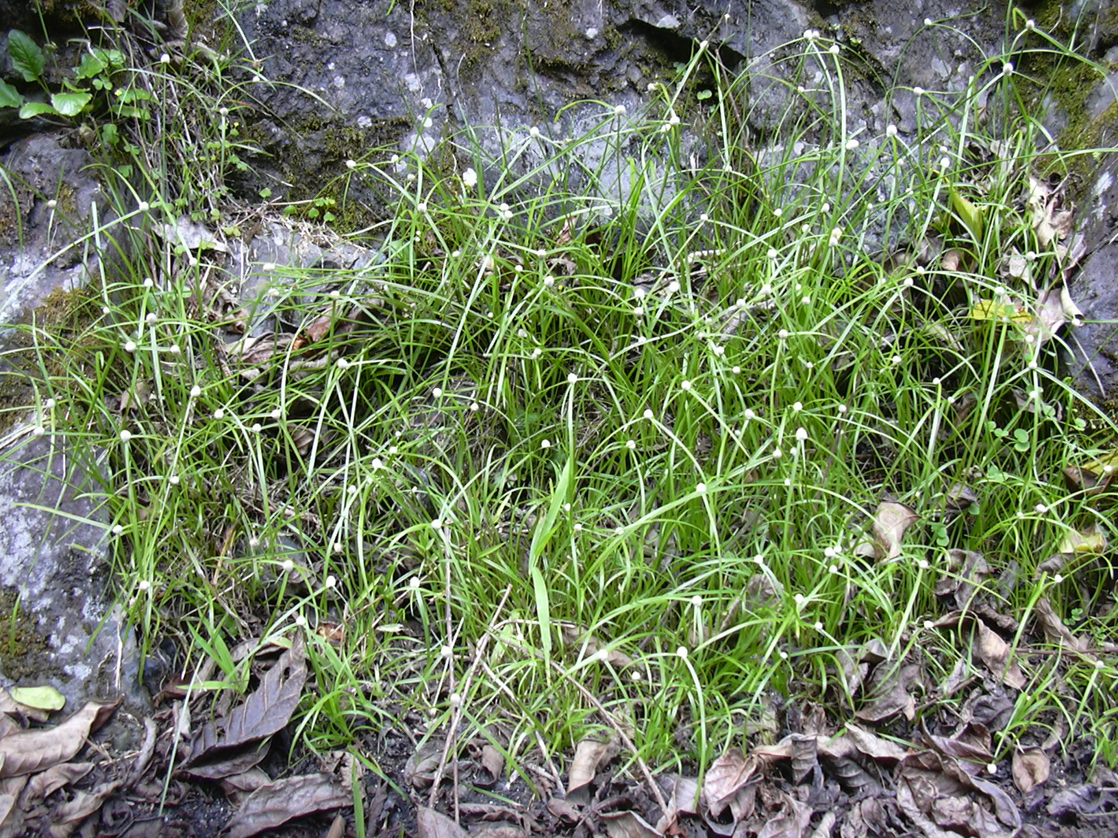 Kyllinga nemoralis (habit). Location: Maui, Keanae Arboretum